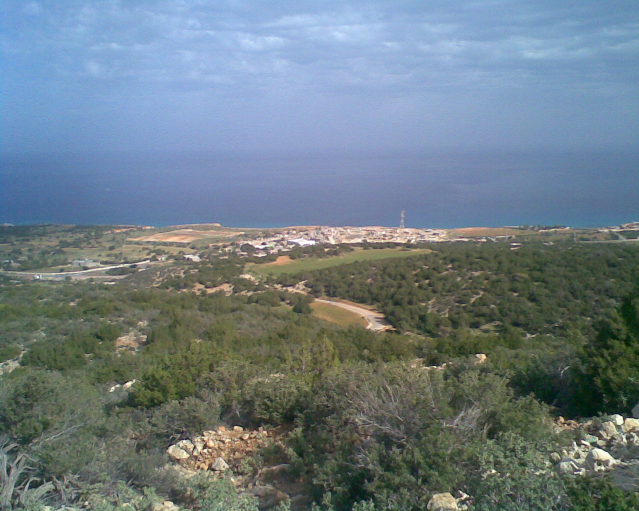 Ras al Helal coast, Jebel Akhdar, Libya.